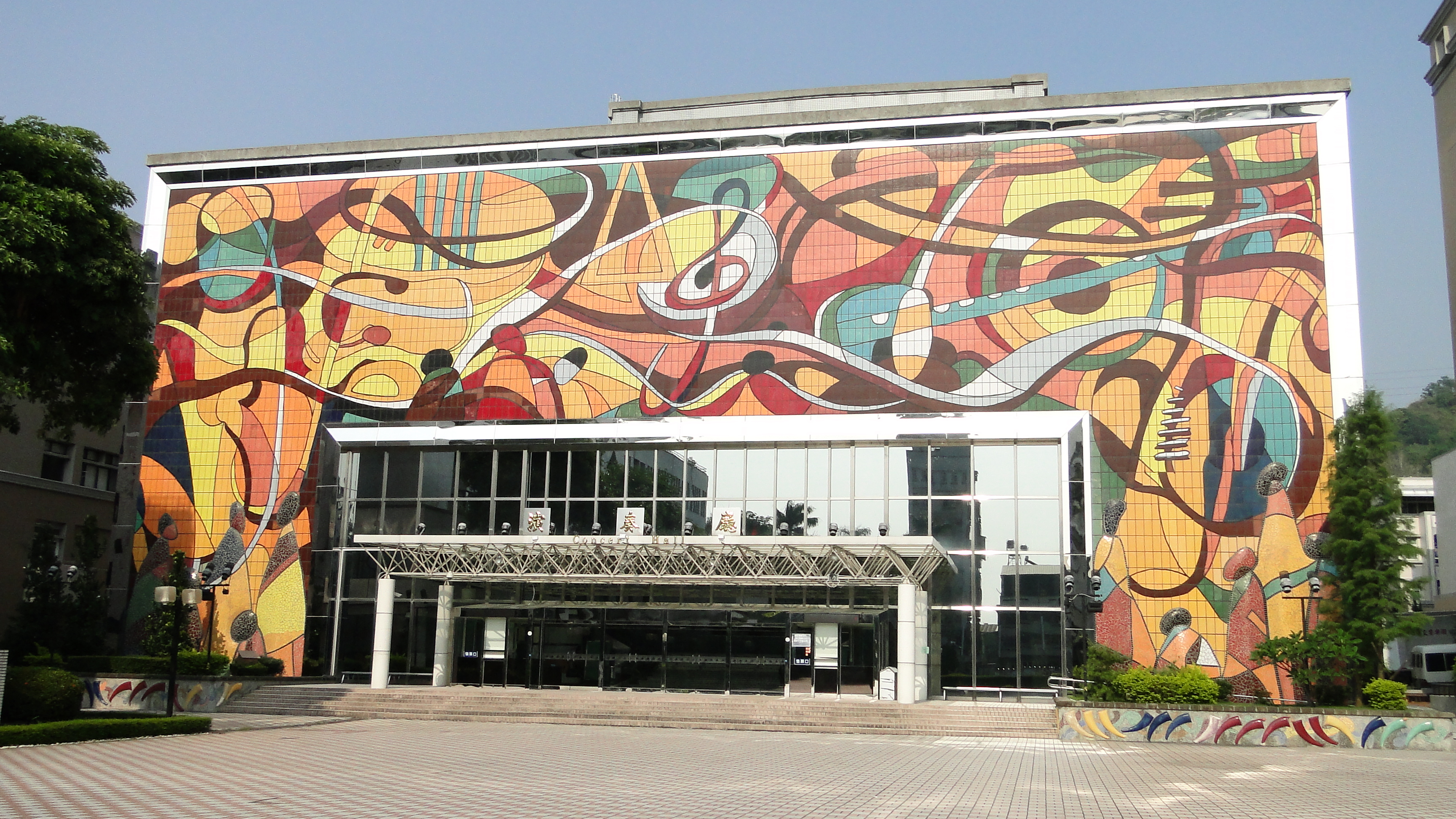 Wufeng Hall, National Taiwan Symphony Orchestra.中文（台灣）: 國立臺灣交響樂團霧峰演奏廳。